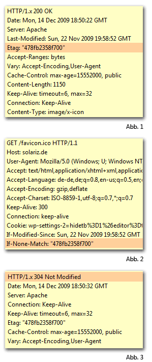 Example of a Server Client Etag communication HTTP/1.1